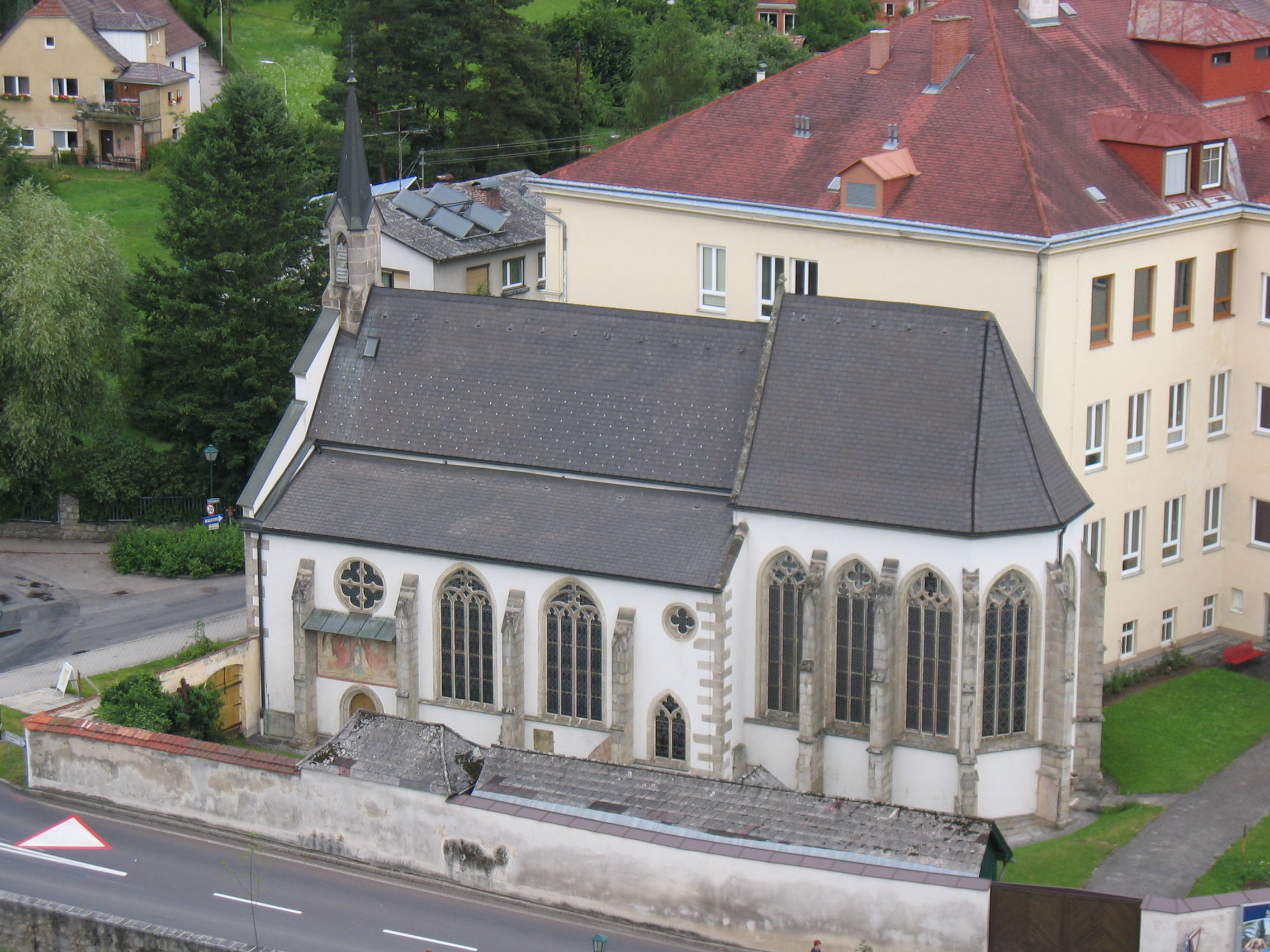 Liebfrauenkirche vom Bergfried gesehen